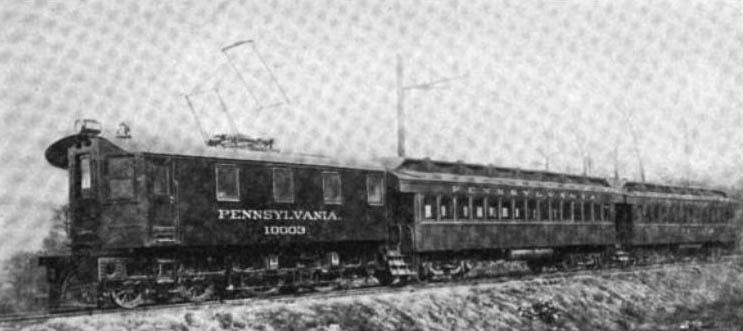 Pennsylvania Railroad PRR Odd D 10003, an experimental 4-4-0 electric locomotive built in 1909.